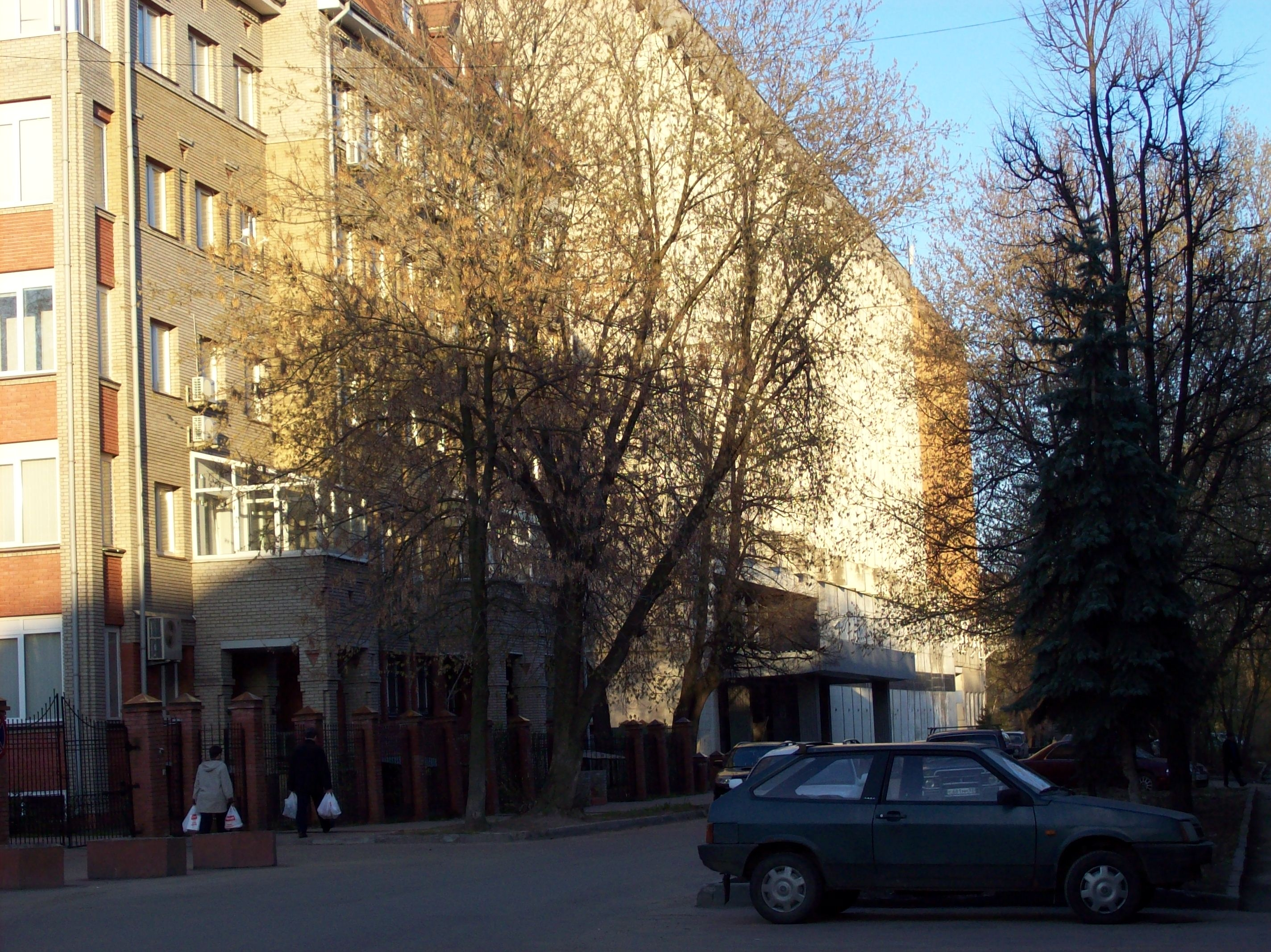 The Institute of Applied Physics of the Russian Academy of Sciences (Институт прикладной физики РАН в Нижнем Новгороде)